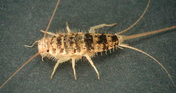 Thermobia domestica, Tucson, Arizona, USA